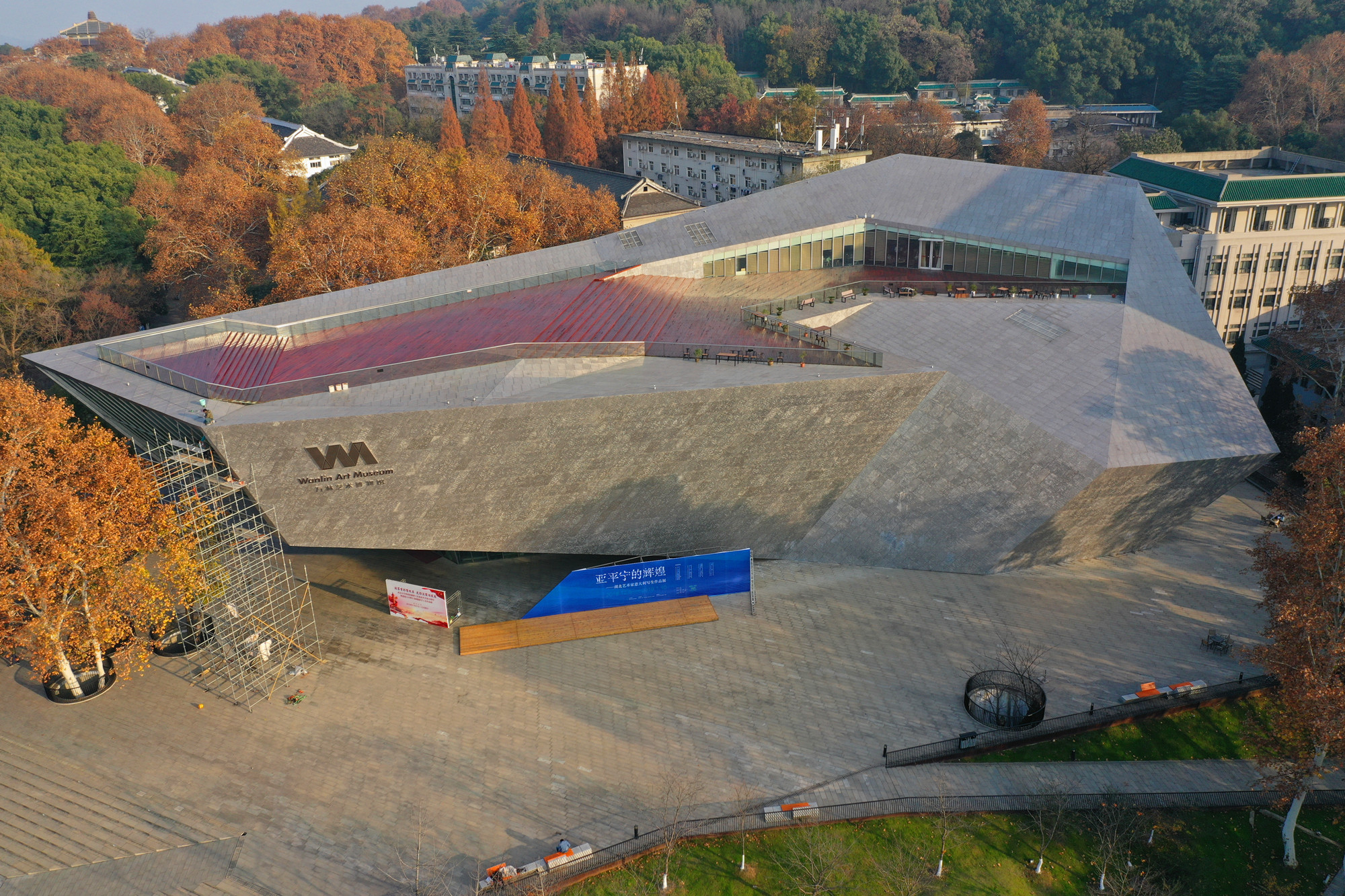 Wuhan University Wanlin Art Museum